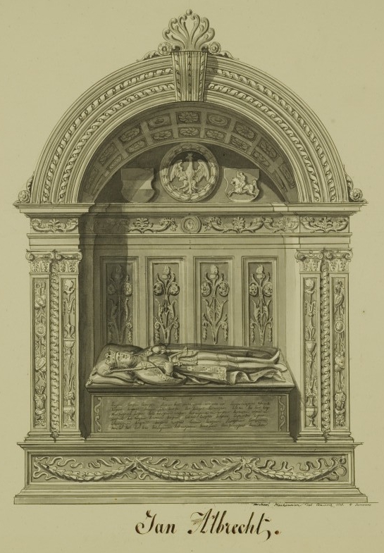 John I Albert of Poland, Wawel cathedral, drawn by Michał Stachowicz in 1818 (Biblioteka Narodowa, R.4411).